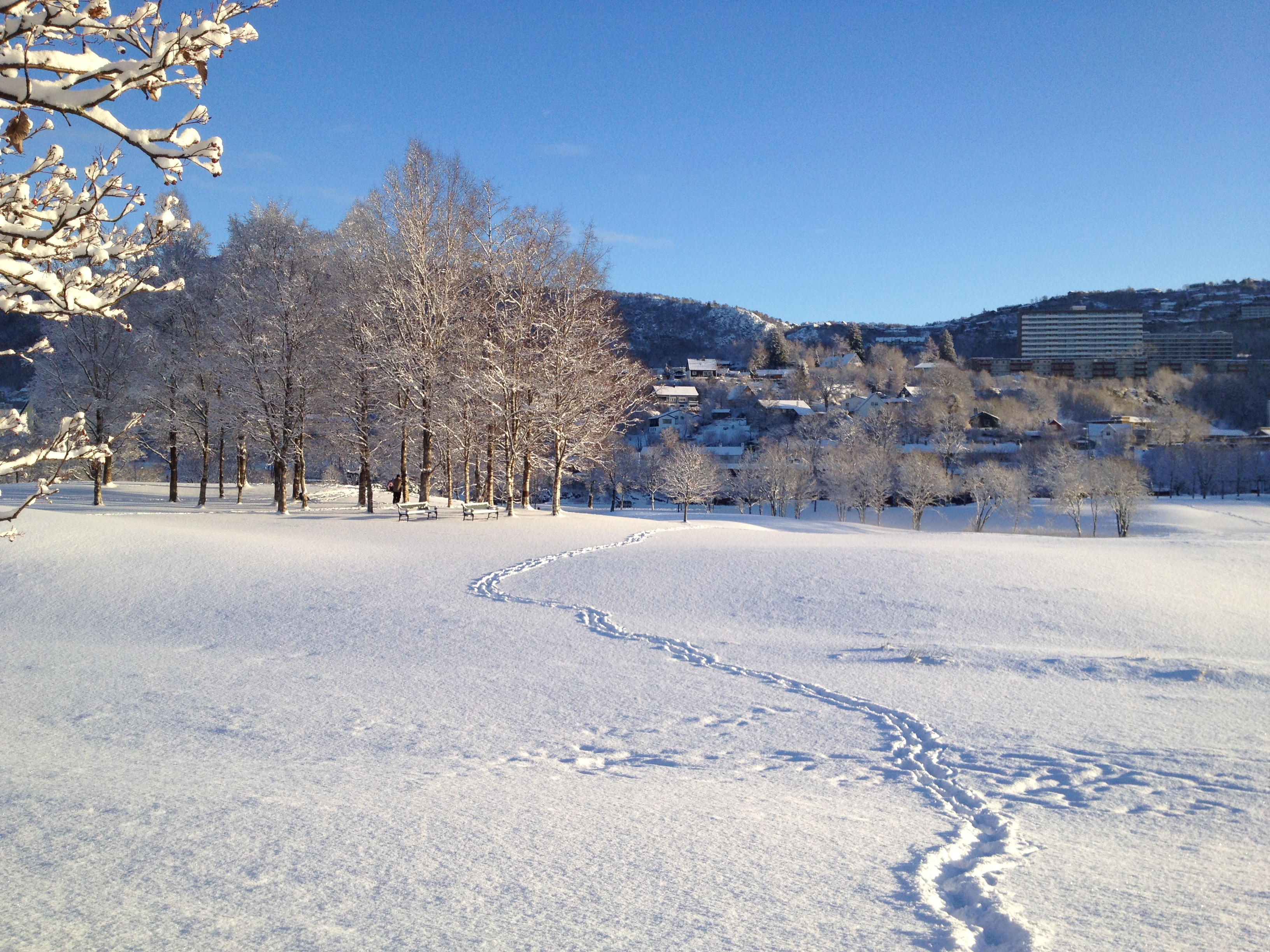 Storetveitmarken, a recreation area in the borough of Fana in Bergen, Hordaland, Norway.